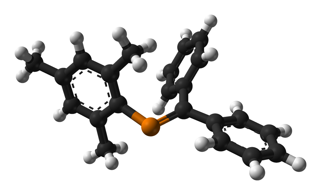 Ball-and-stick model of the mesityldiphenylmethylenephosphine molecule, MesP=CPh2, C22H21P, as found in the crystal structure. X-ray diffraction data from Z. Anorg. Allg. Chem. (1986) 540, 319-335. Model constructed in CrystalMaker 8.1. Image generated in Accelrys DS Visualizer.